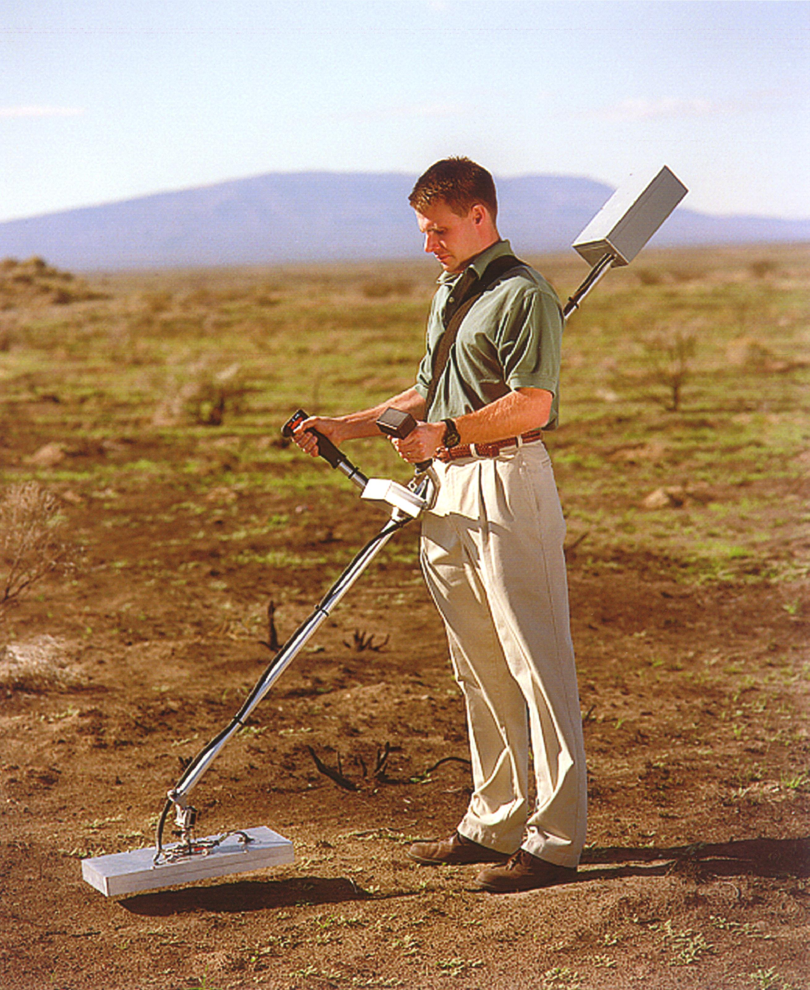 An engineer from the Pacific Northwest National Laboratory testing a timed neutron detector, a device that detects land mines.